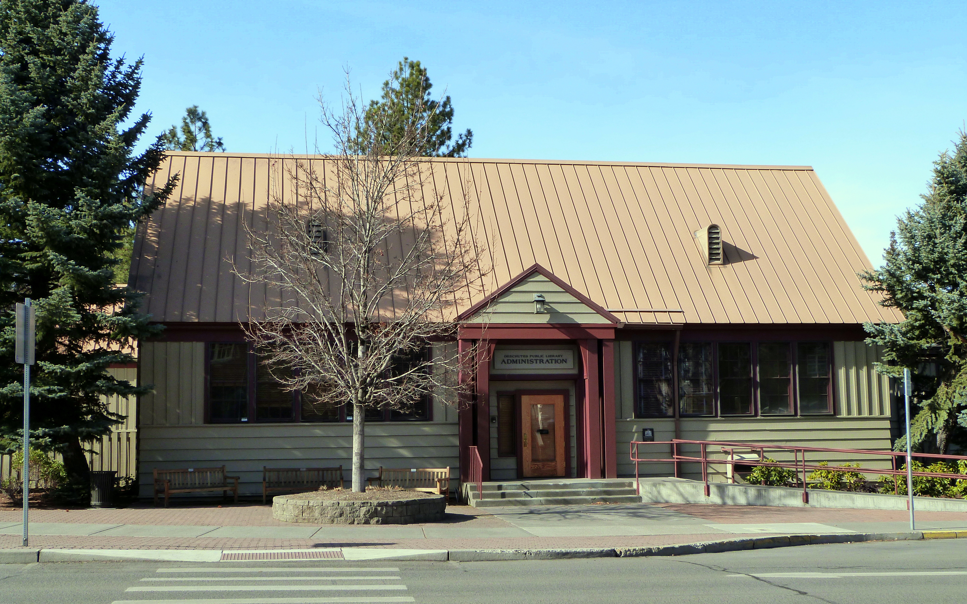 The historic administration building of the Deschutes County Library (built 1938), located at 507 Northwest Wall Street in Bend, Oregon, United States, is listed on the US National Register of Historic Places.